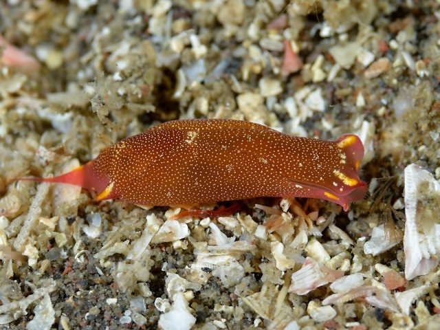 Chelidonura fulvipunctata. Depth: 46 m.